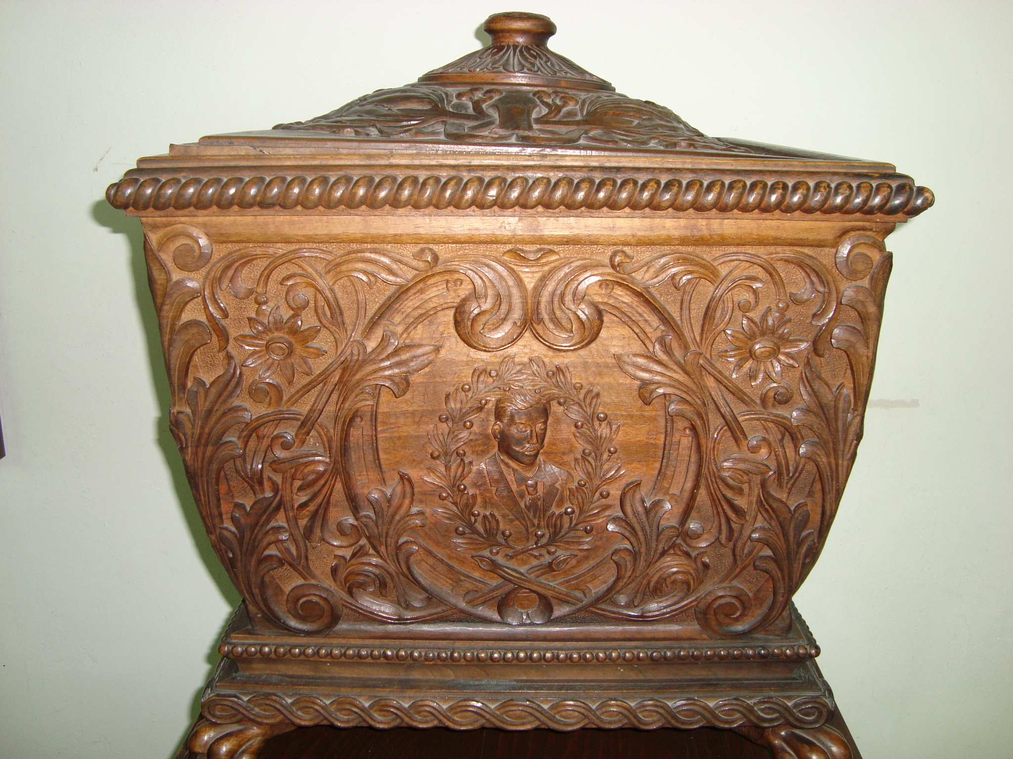 Urn with the remains of Gotse Delchev - today in St.Spas church in Skopie, Macedonia